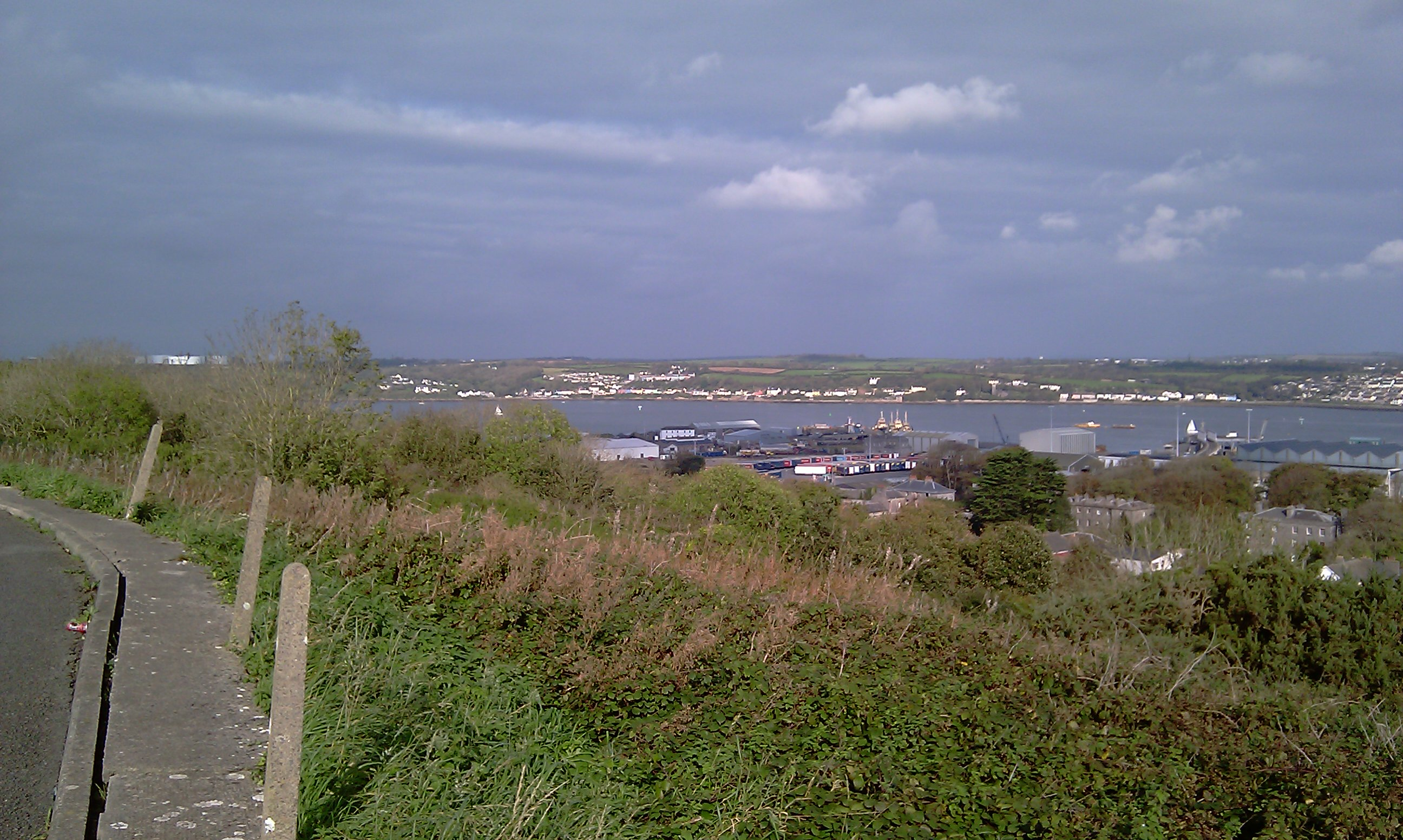 Llanstadwell from Defensible Barracks (Pembroke Dock)